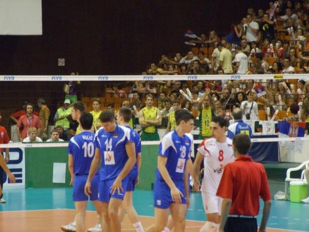 Serbian national volleyball team (Miljkovic, Podrascanin, Samardzic, Nikic, Grbic)